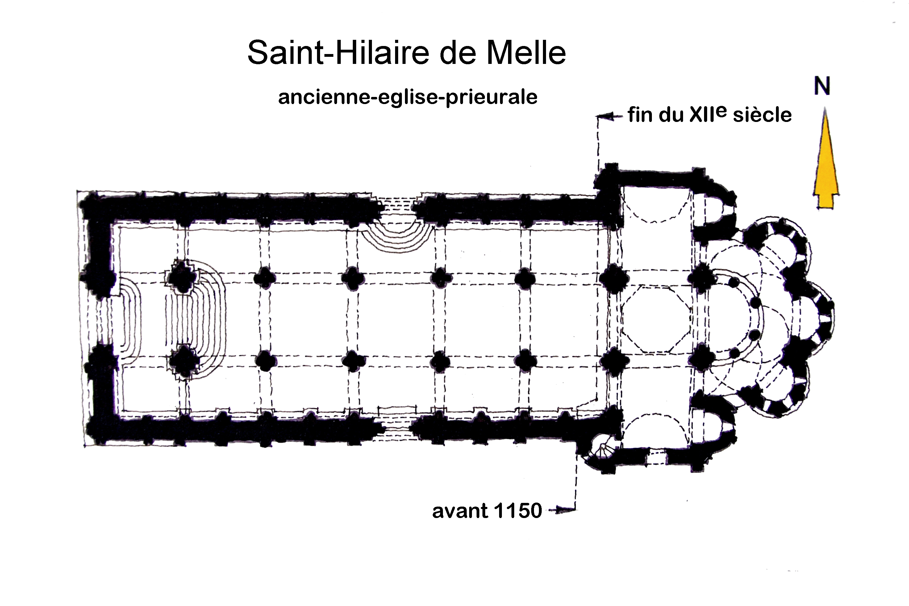 St. Hilaire in Melle (FR), manually drawn footplan